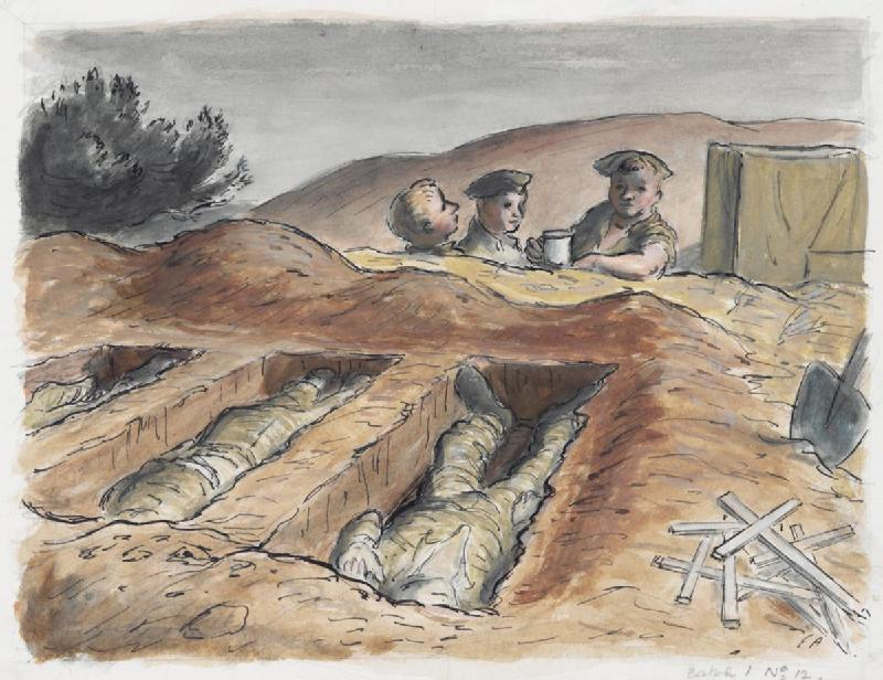 On the Road to Tripoli - a Cup of Tea for the Burial Party image: Three shallow open graves containing uniformed bodies. Behind them the burial party are are looking on drinking tea.